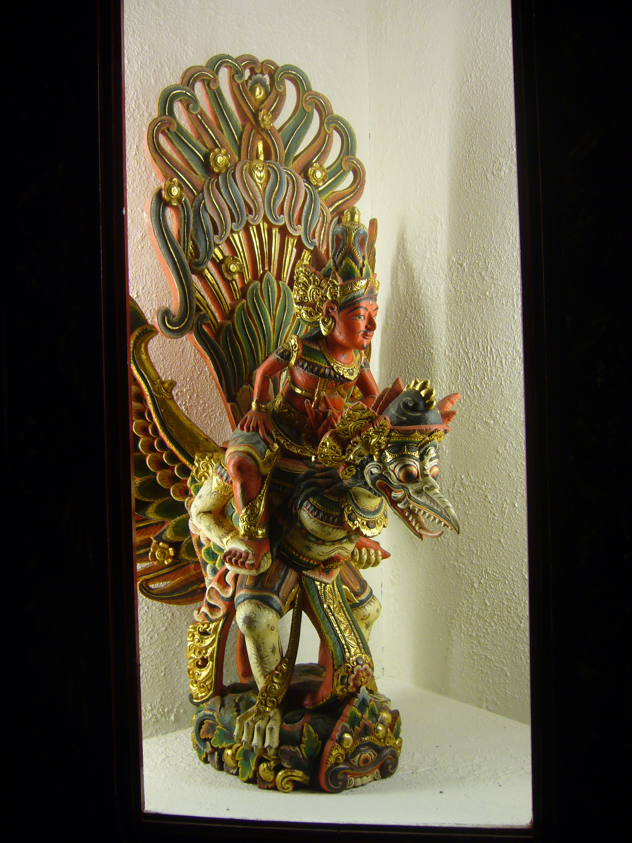 Tampat Senang, oldest Indonesian restaurant in The Hague